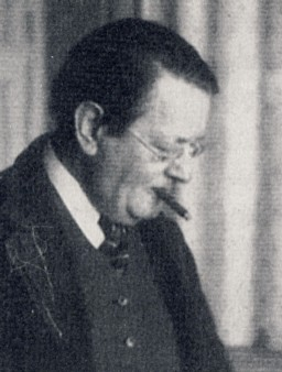 Architect Cyrillus Johansson